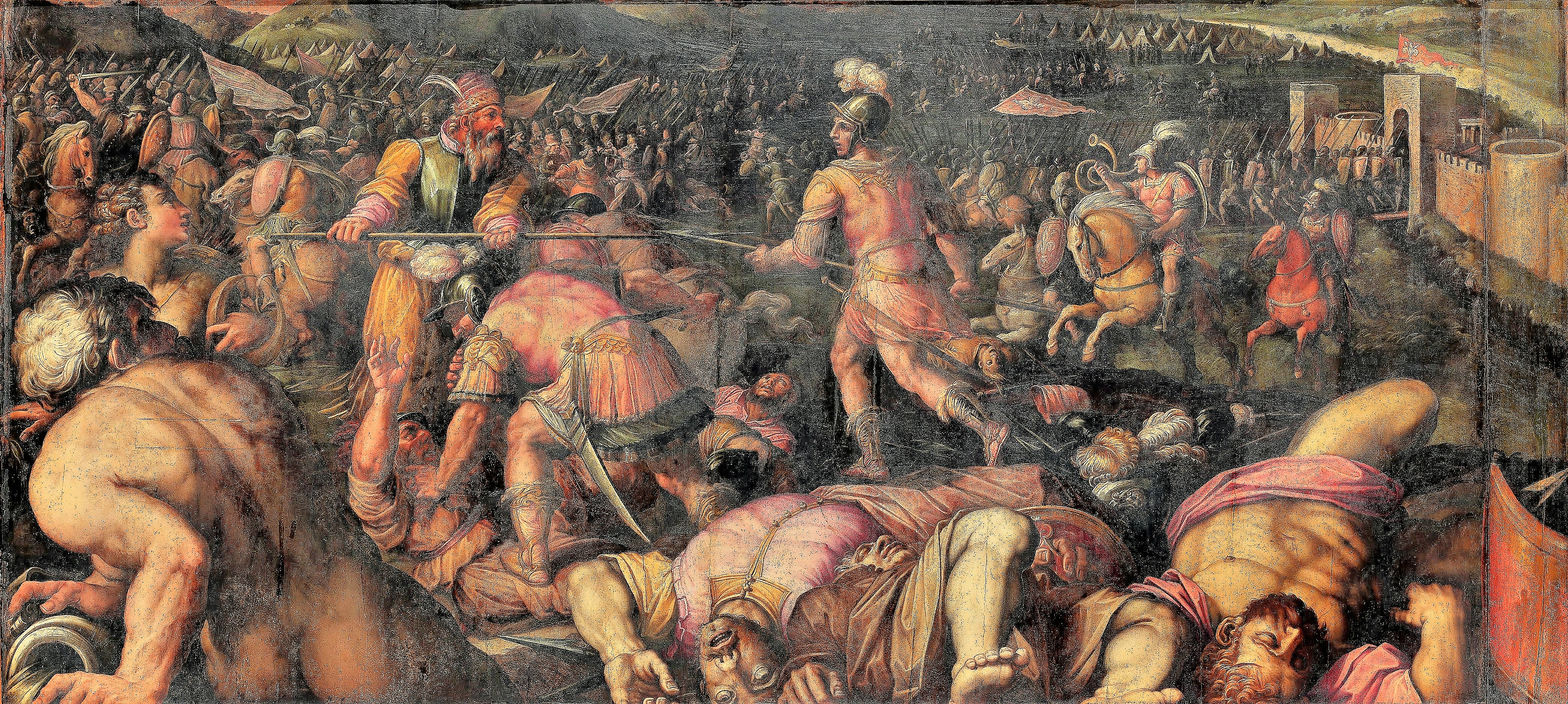 Defeat of Radagaisus at Fiesole (23 August 406). Oil painting on wood. Date (1563 - 1565). Led an invasion of Roman Italy in late 405 and the first half of 406. Radagaisus scythian king planned to sacrifice the Senators of the Christian Roman Empire to the gods, and to burn Rome to the ground.